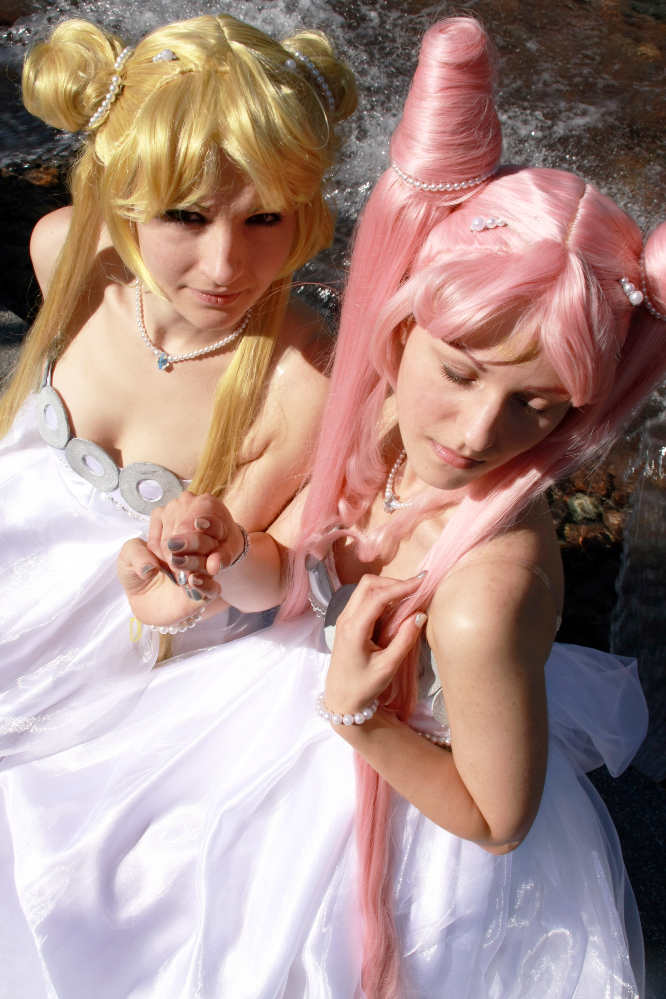 Sailor Moon